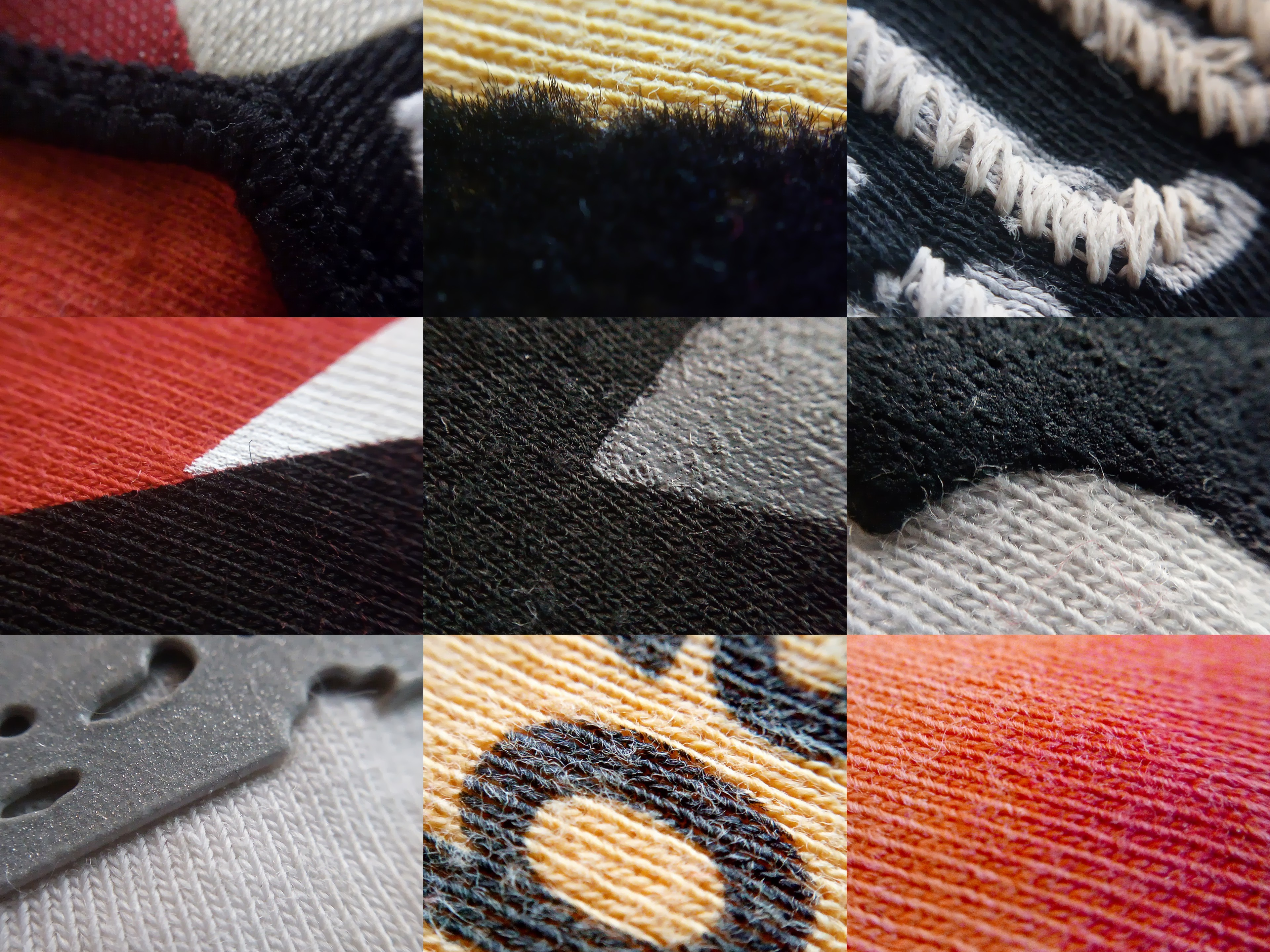 Several decorative effects for jerseys, on the first line there is the patch, fur effect and embroidery, on the second row there are three examples of hot, thin, standard prints and thick, on the third row there is the decoration by strips Glued plastics, silk screen printing or direct digital and dyeing at tie e dye.